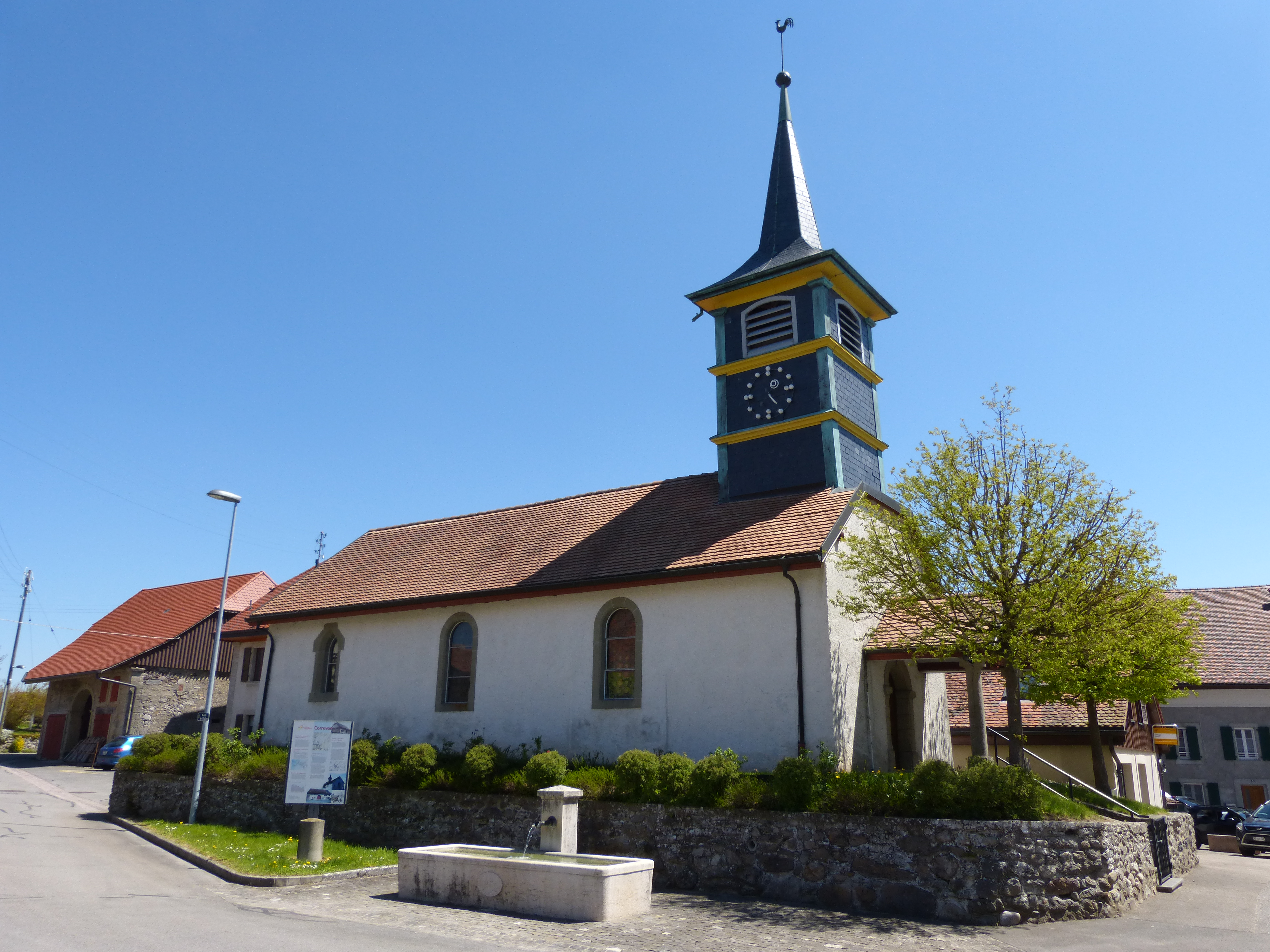 Reformed church of Correvon.